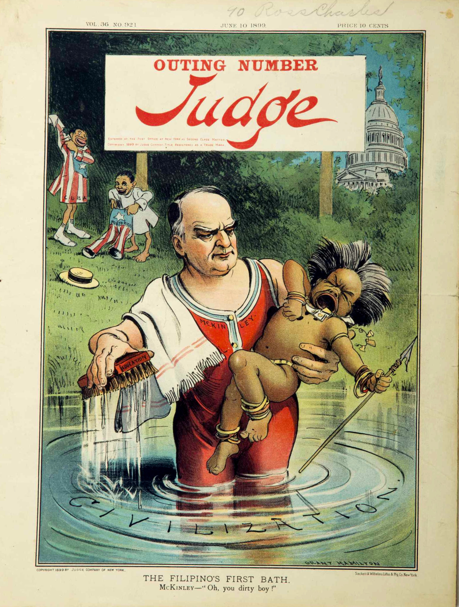 Cartoon titled "The Filipino's First Bath" depicted on the cover of the Judge magazine, first published on June 10, 1899. U.S. President William McKinley is shown taking a savage baby with a spear into a body of water labeled "Civilization", while on shore figures of two youths (the one on the left labeld "Cuba", the one on the right labeled "Philippines" apparently a caricature of Emilio Aguinaldo) steal McKinley's clothing in the form of US flag design. Under cartoon title text: McKinley: "Oh you dirty boy".